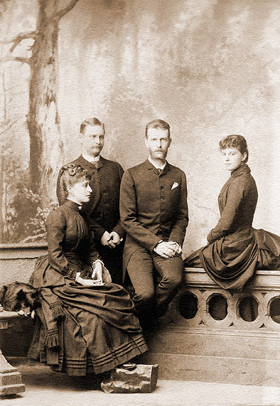 Grand Duke Sergei Alexandrovich, the Princess Elizabeth, the adjutant K. A. Balyasniy and C. A. Schneider. Darmstadt, 1884